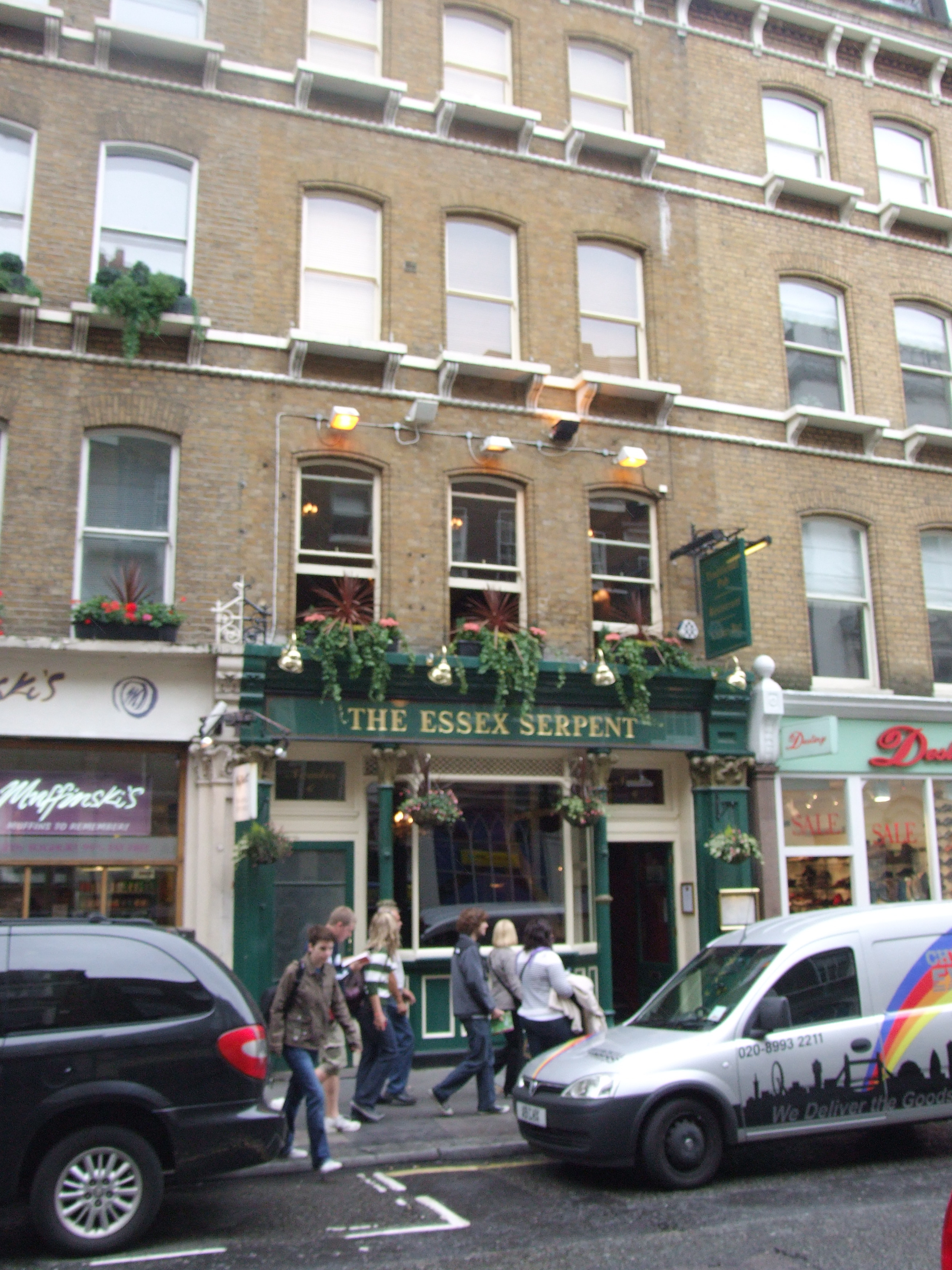 The Essex Serpent, pub in Covent Garden